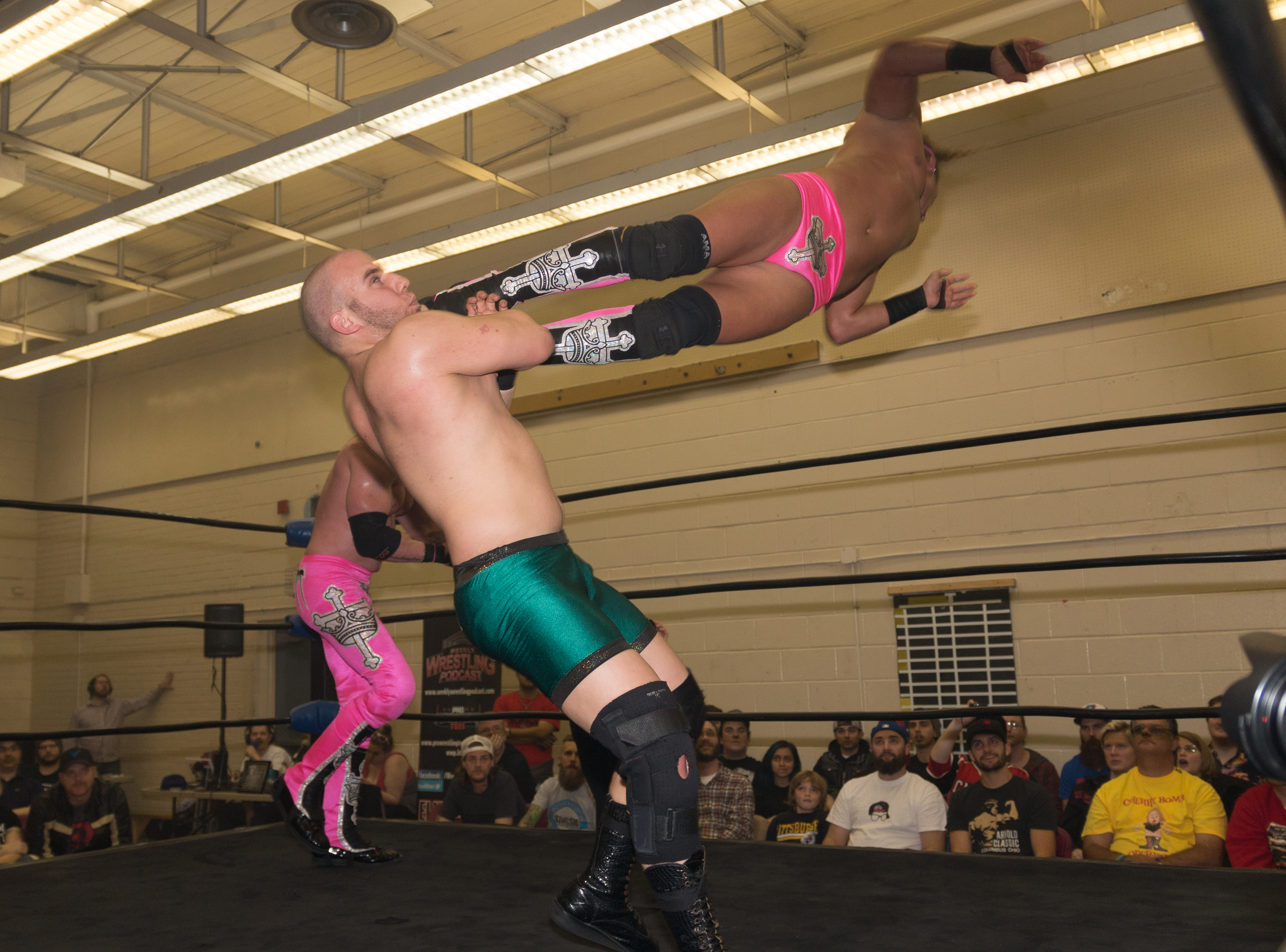 Matt Taven hitting a missile dropkick on Sebastian Suave at a Smash Wrestling show in Etobicoke, ON